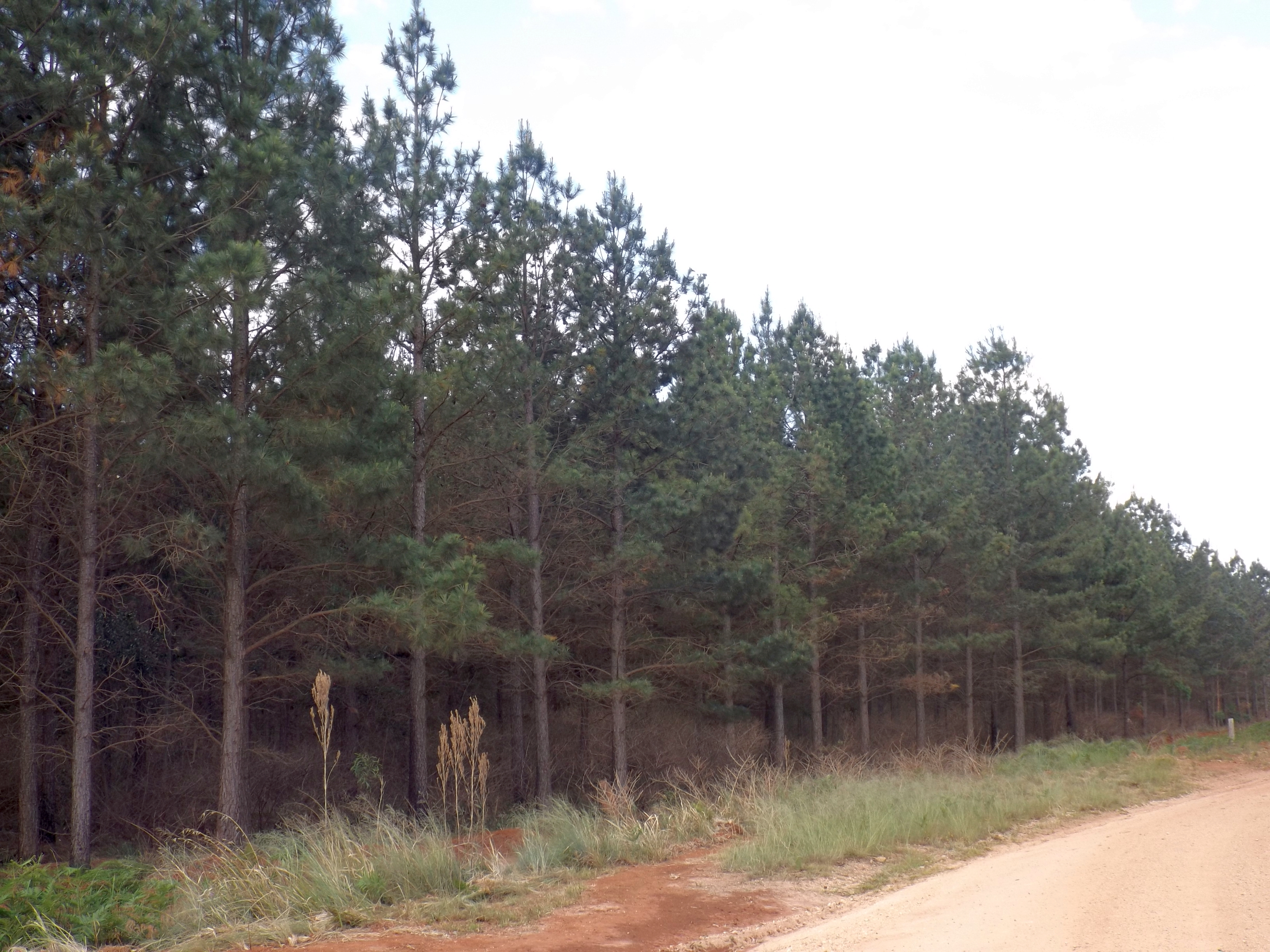 Pechey State Forest along Grapetree Road at Pechey, Queensland, Australia.